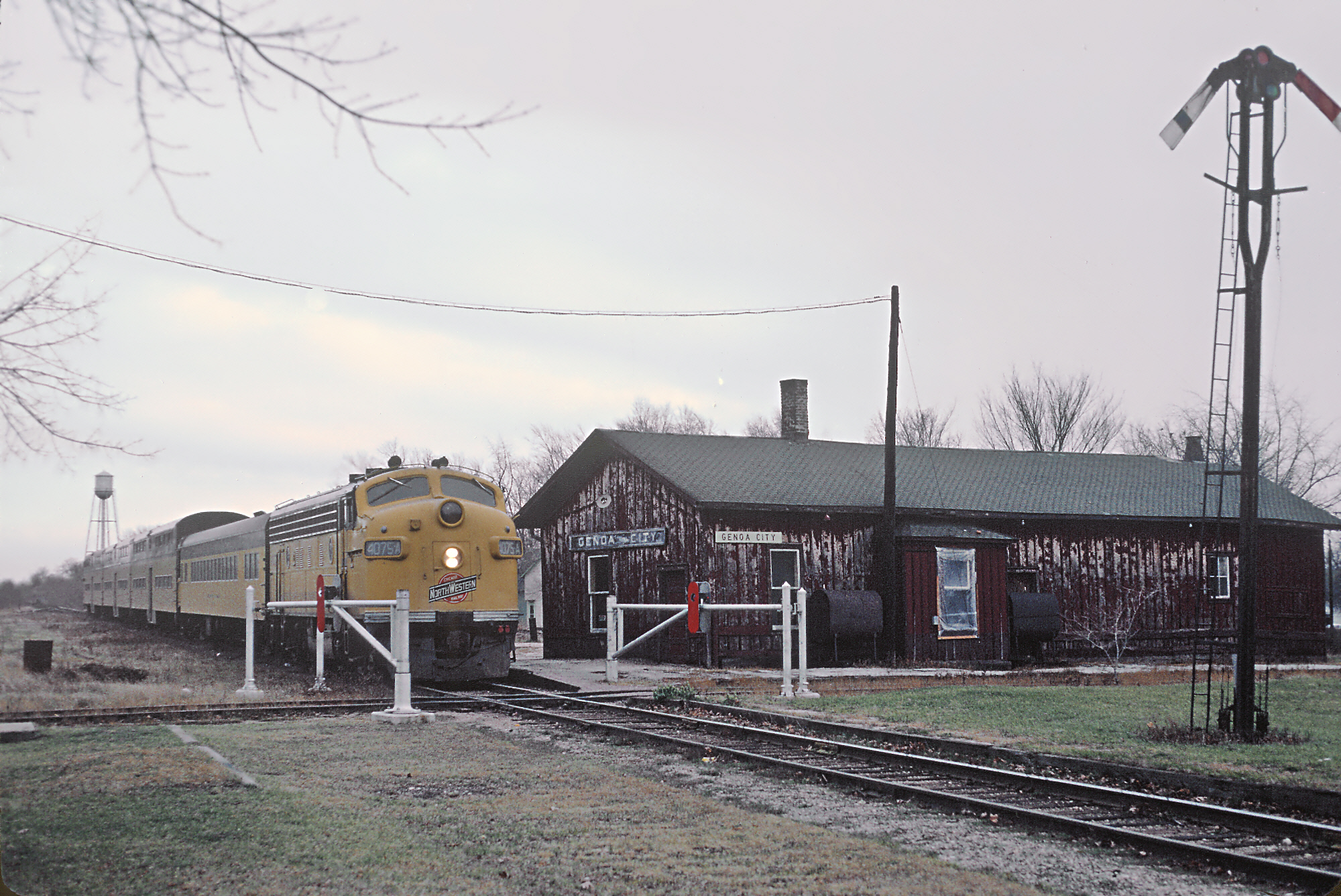 CNW 4075A (F7A) at Genoa City, WI in December 1964.